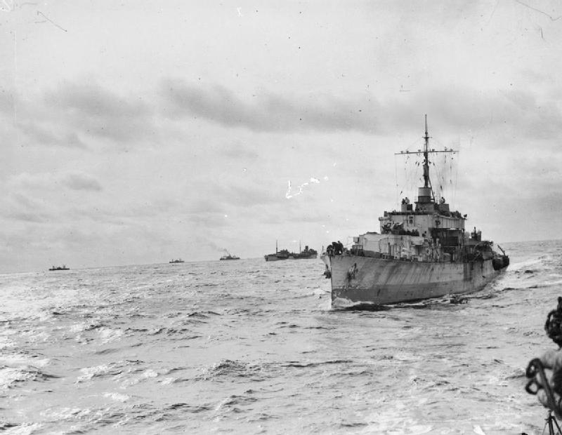 The Royal Navy during the Second World War HMS SPEY passing ships of a convoy during her successful anti-U-boat patrol with the 2nd Escort Group.